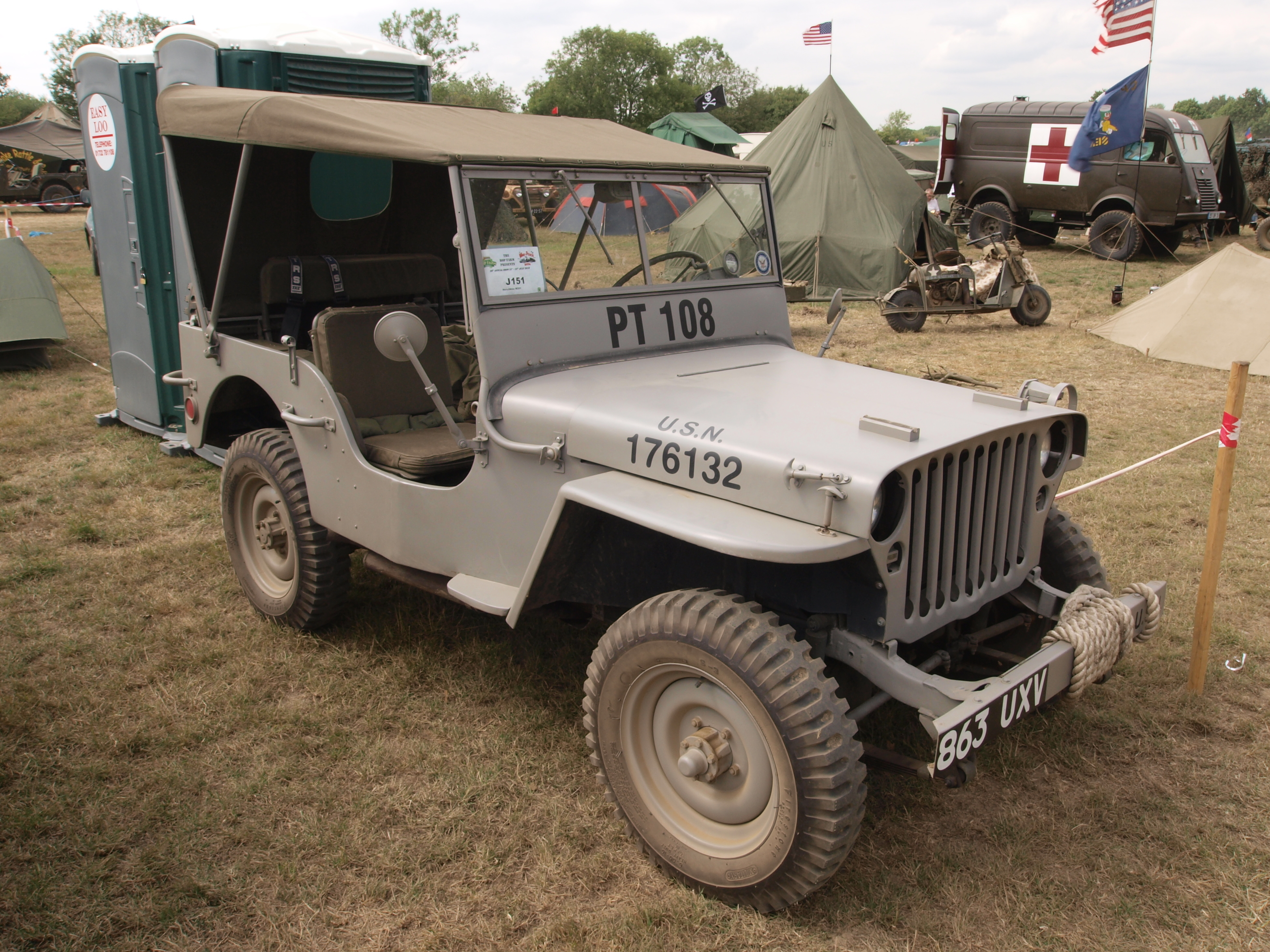 Hotchkiss M201 (1961) owned by Gordon Stirrat. Hoodno USN 176132